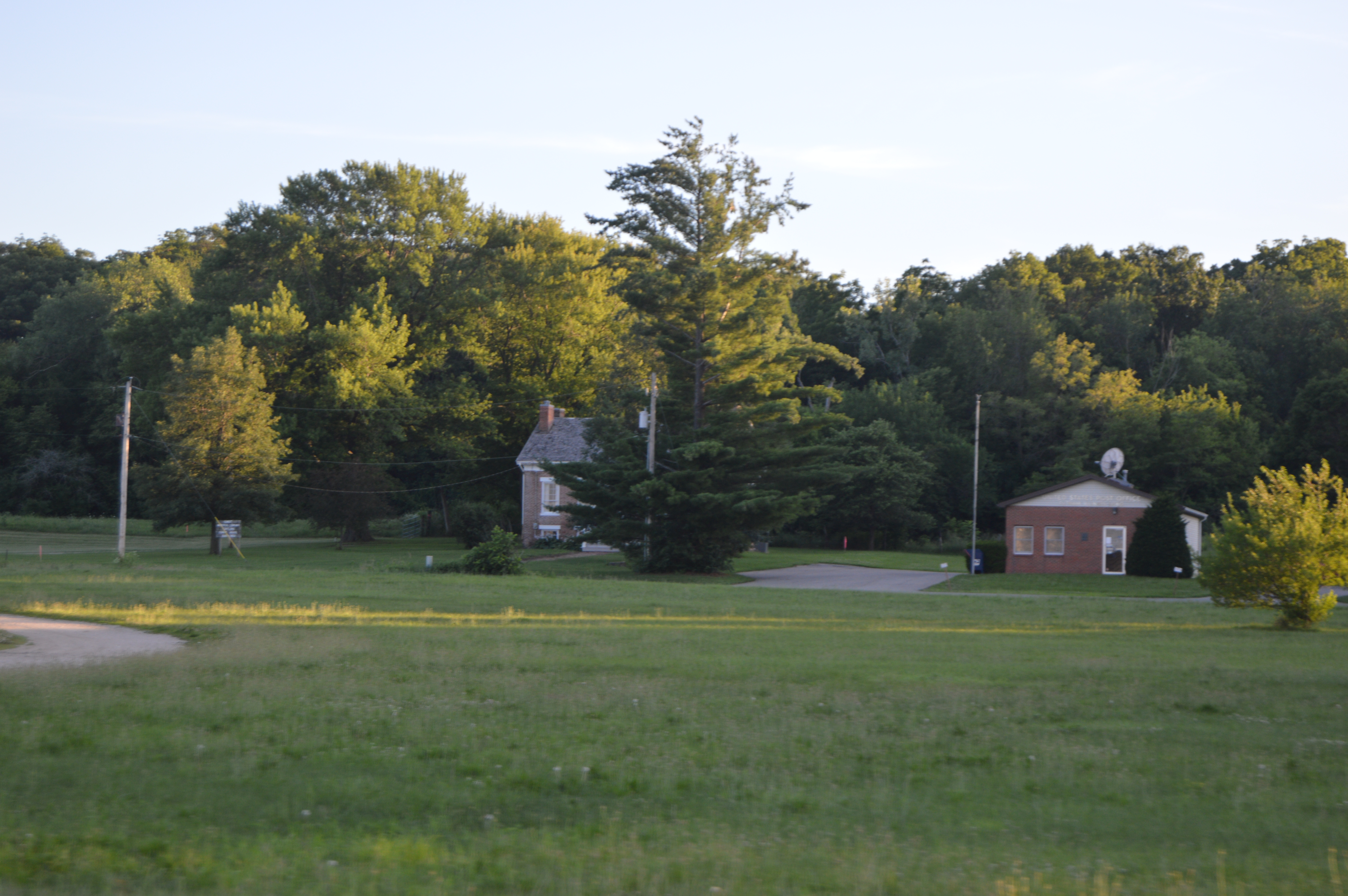 Distant view from the east of the Cortland Condit House, located off Illinois Route 29 at Putnam, Illinois, United States. Built in 1849, it is listed on the National Register of Historic Places. To the right, the U.S. Post Office.